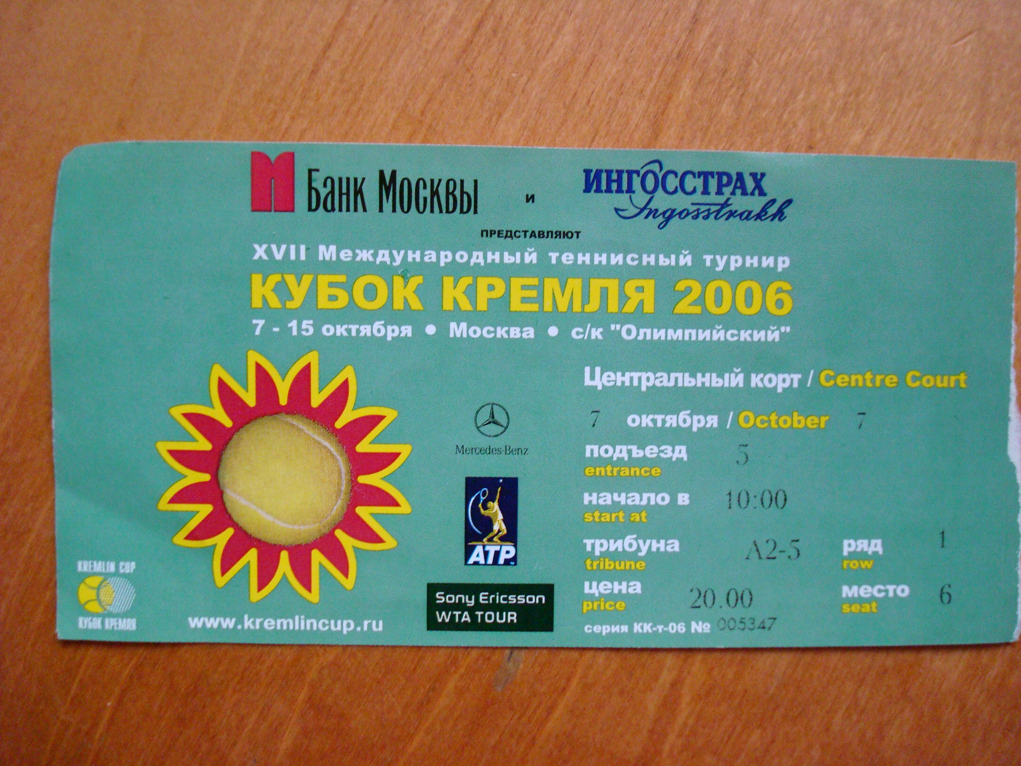 2006 tennis Kremlin Cup's ticket